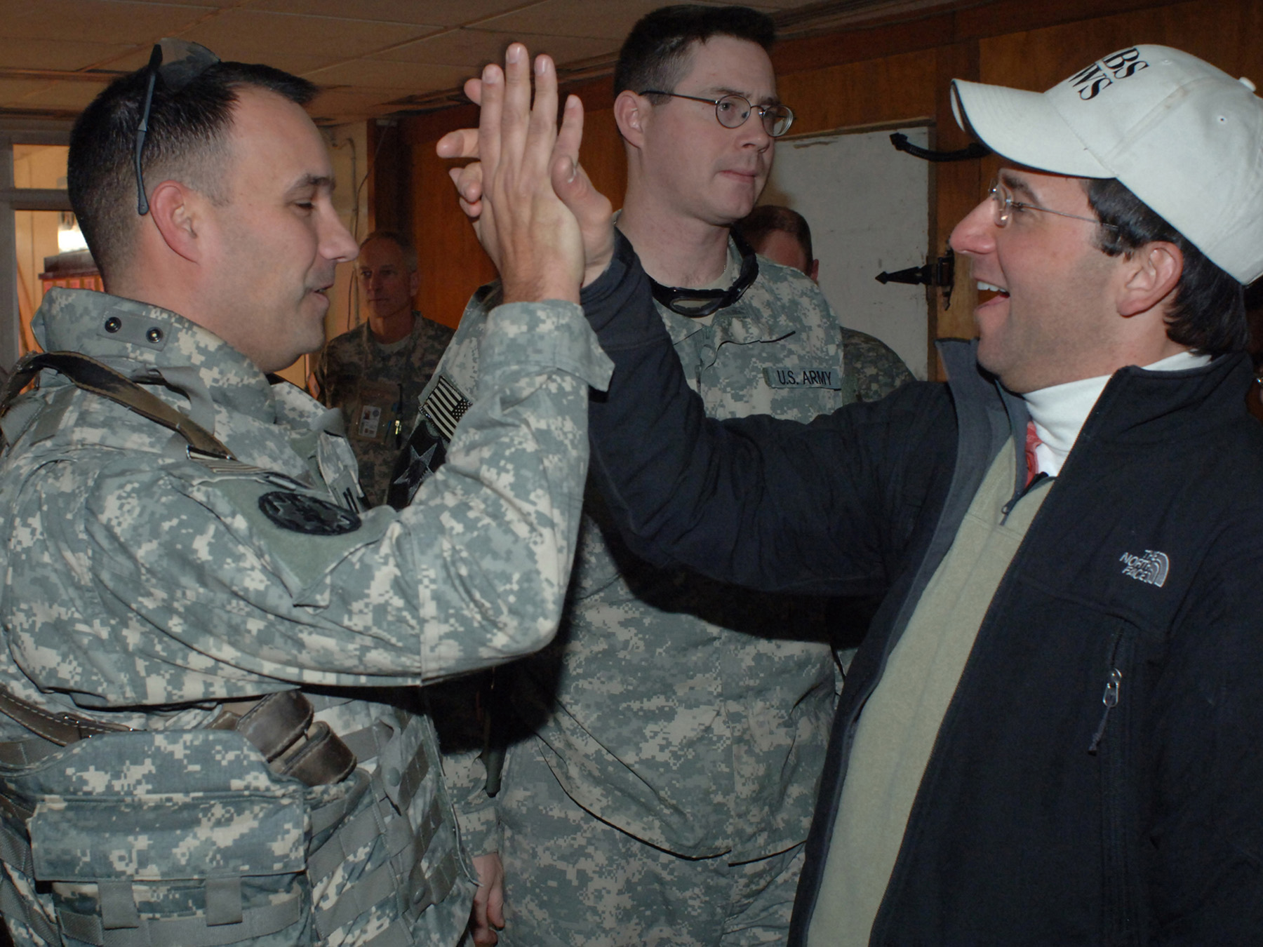 CBS “The Early Show” weatherman Dave Price high-fives with Cpt. Michael Fitzpatrick, both New Jersey natives, during the “Ringing in the New Year Tour” Morale, Welfare and Recreation-sponsored visit to Forward Operating Base Loyalty in east Baghdad Dec. 31. Celebrities visited Soldiers assigned to the 2nd Brigade Combat Team, 2nd Infantry Division.